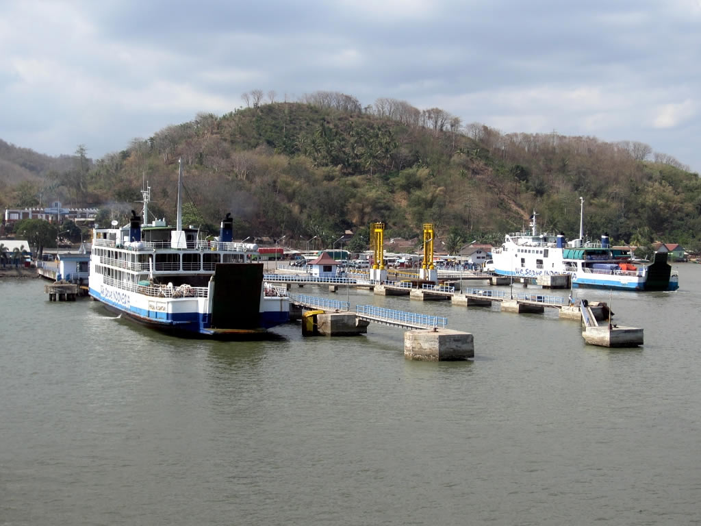 Ferries from Bali arrive at this terminal in Lembar, Lombok.